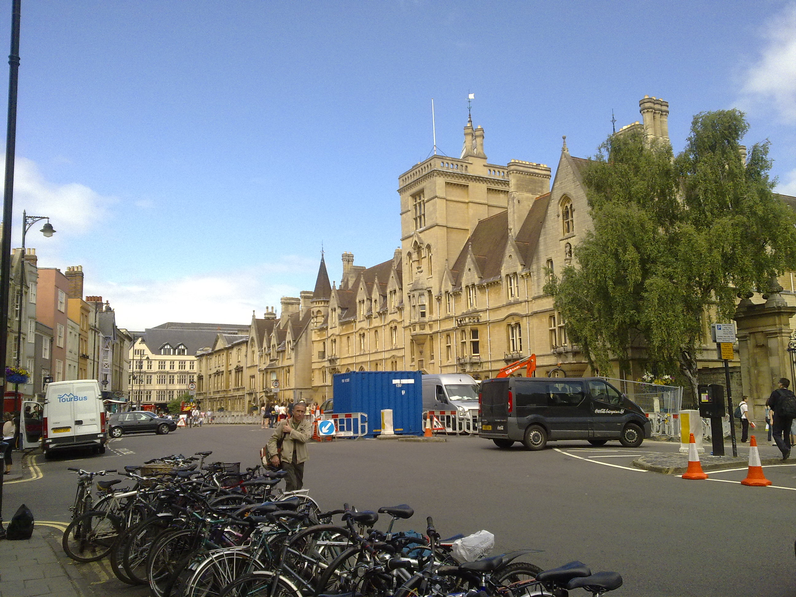 The front of Balliol College as viewed from Broad Street, looking west.